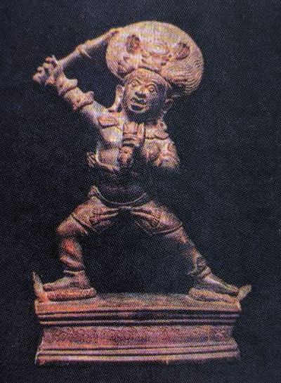 Jetavana Bronze image2